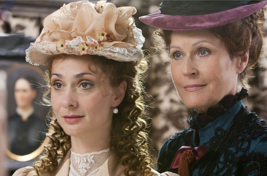 Éva Auksz and Szilvia Sunyovszky in the movie A Föld szeretője.